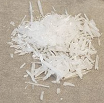 9-BBN crystals